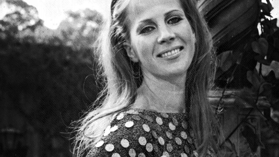 Publicity photograph of the Finnish model and actress Carita Järvinen (1943–).